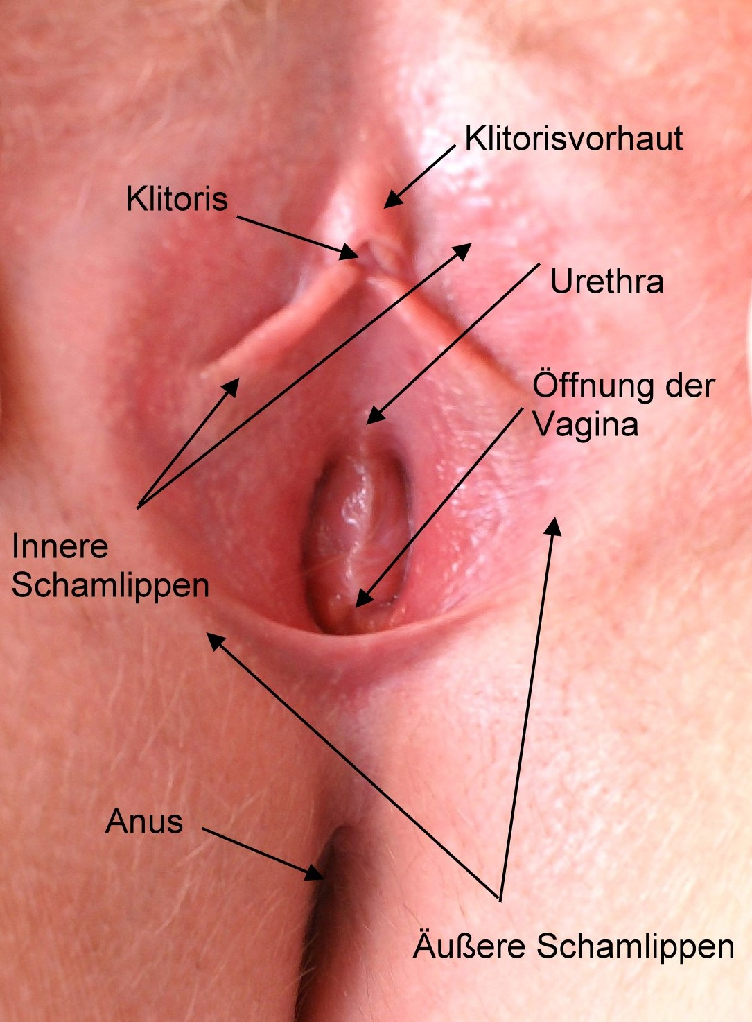 anatomy of vagina